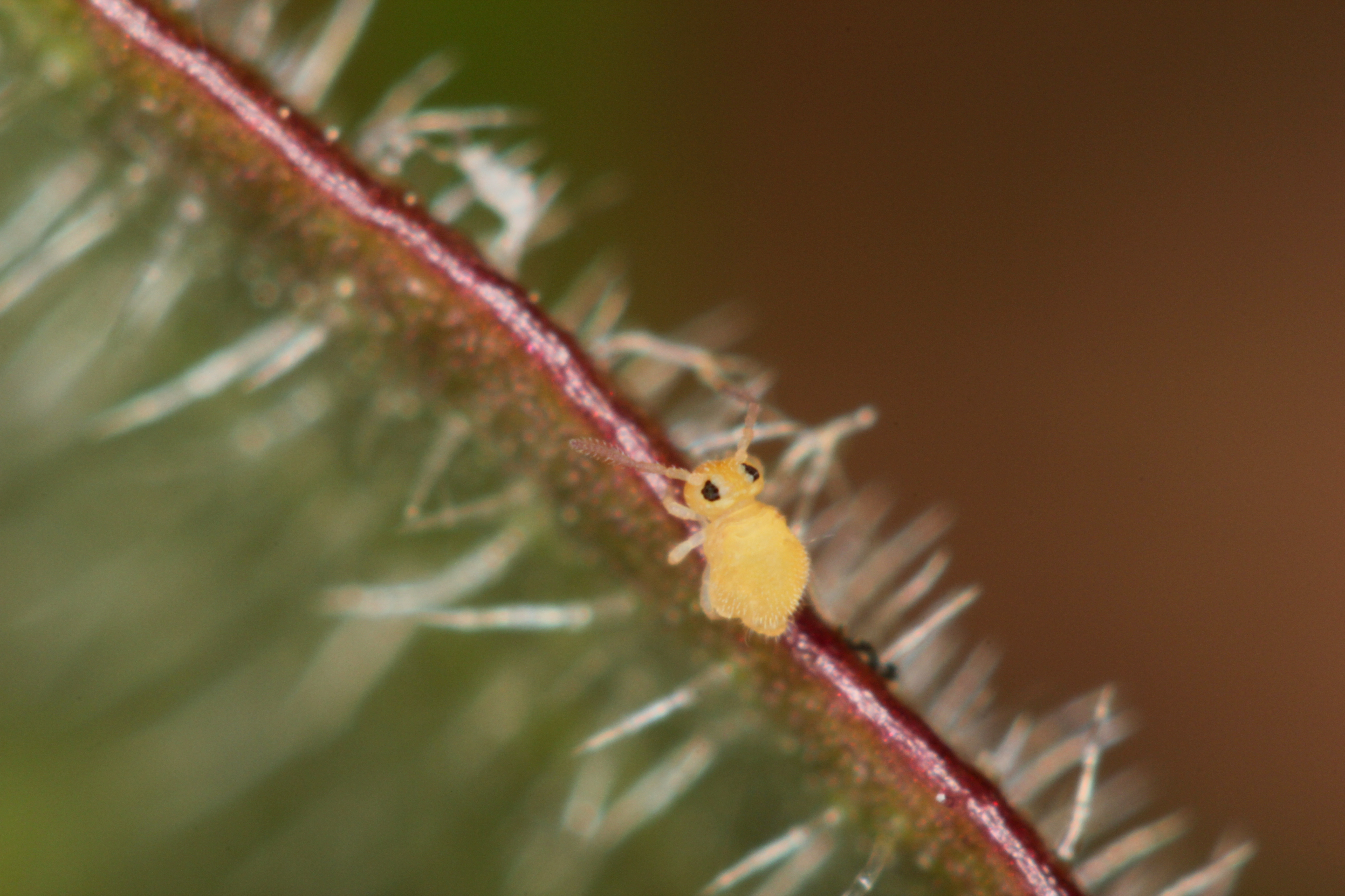 Bourletiella arvalis from England.